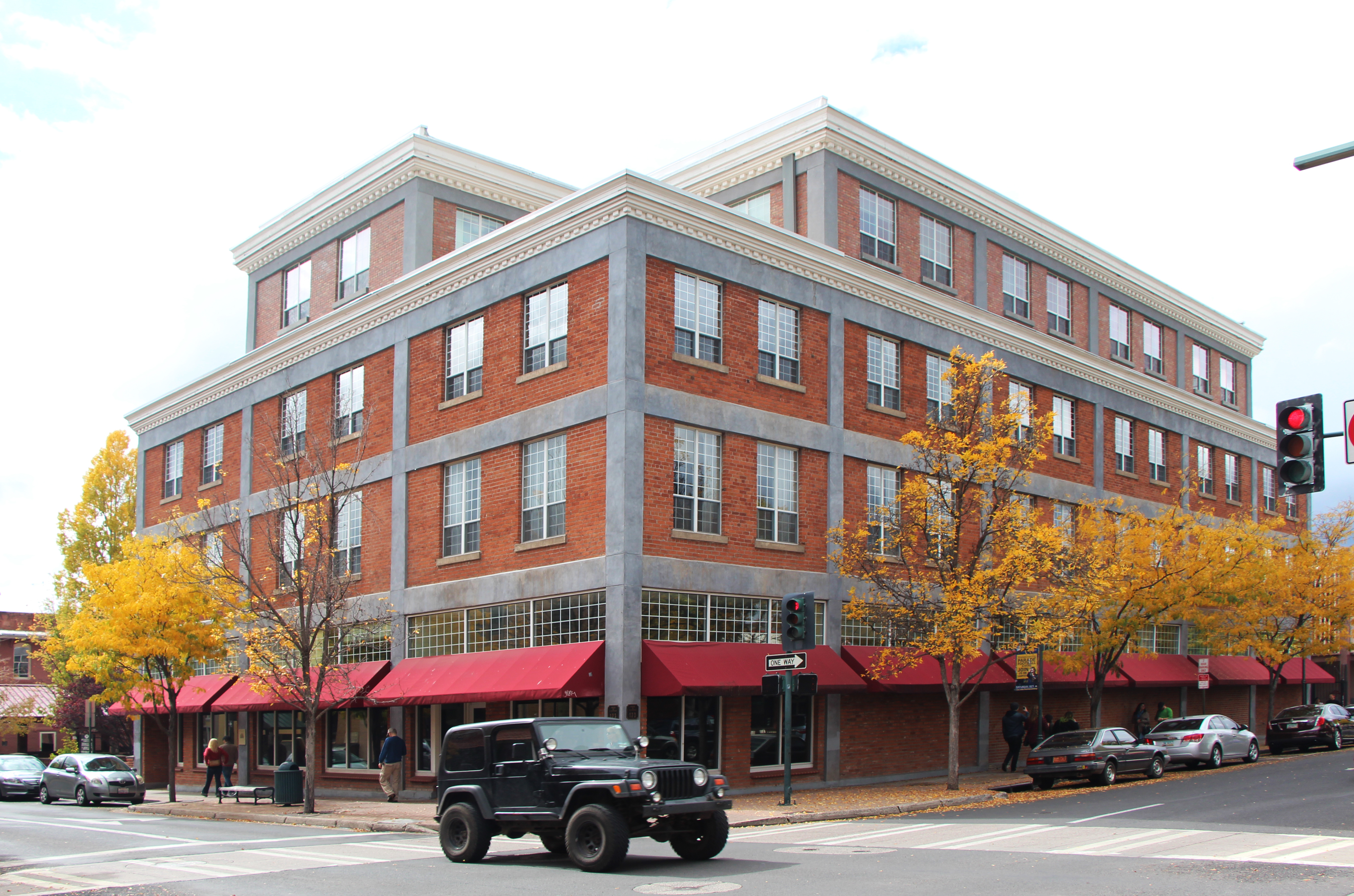 Babbitt's Garage, 175 N San Francisco St, Flagstaff, AZ